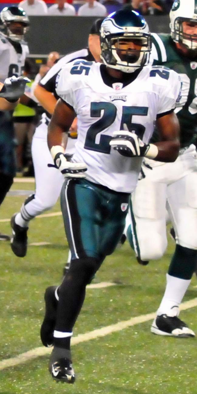 Lorenzo Booker during a game between the New York Jets and the Philadelphia Eagles in September 2009. This file has been extracted from another file: Michael Vick running Jets-v-Eagles, Sep 2009 - 53.jpg